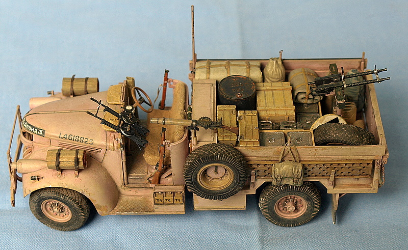 Tamiya 1:35 scale LRDG Chevrolet 1533X2 wireless truck; "Te Aroha III", T1 Patrol, March-September 1942